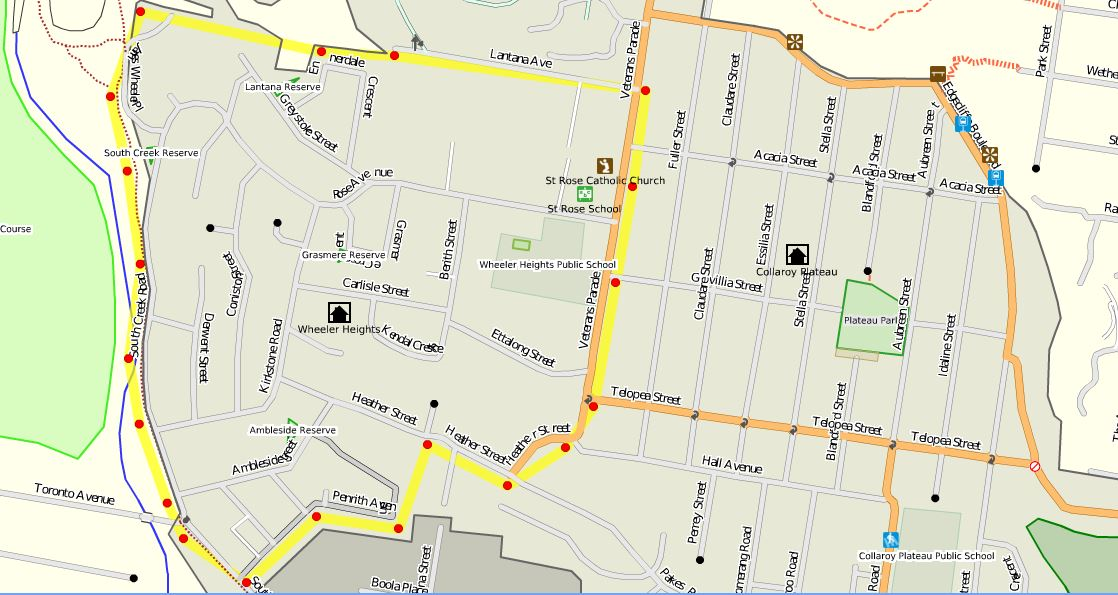 This map of Reserves in Wheeler Heights NSW Australia. was created from OpenStreetMap project data, collected by the community. This map may be incomplete, and may contain errors. Don't rely solely on it for navigation.